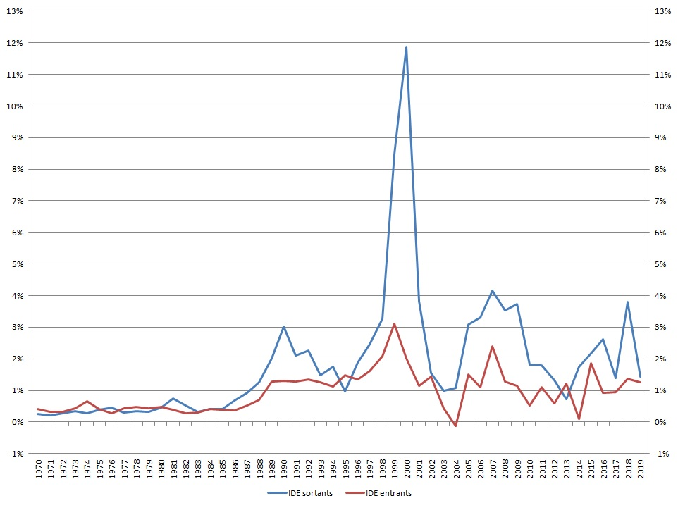 Evolution of French FDI relative to GDP since 1970